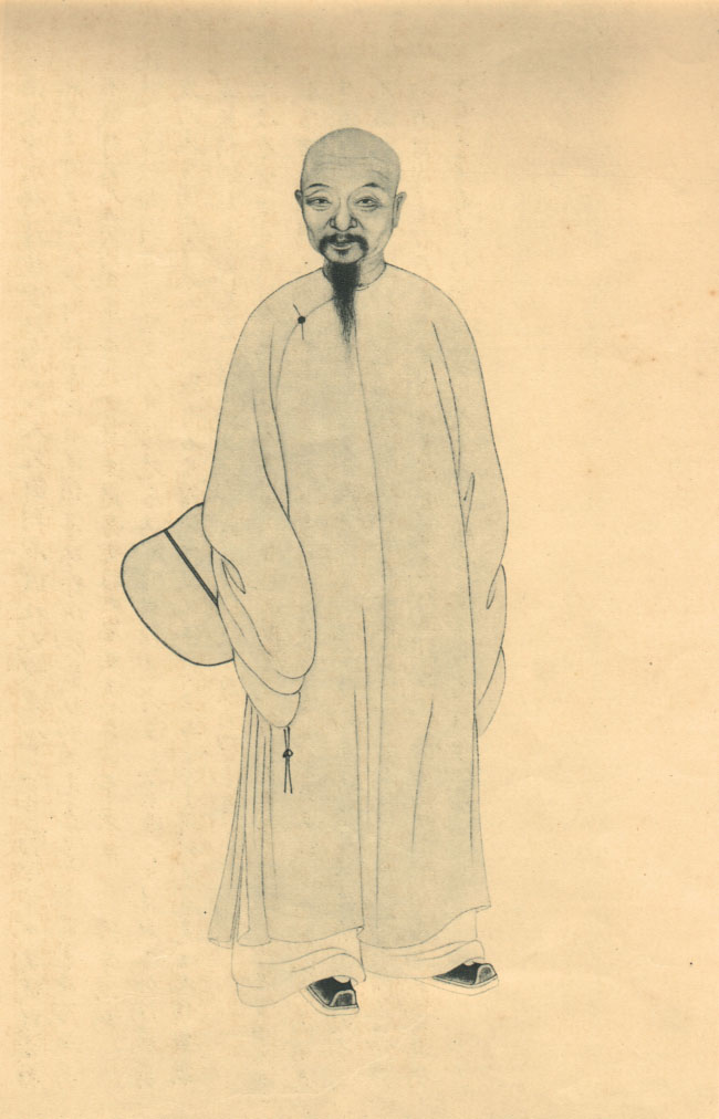 Pan Leiu, scholar of the Qing Dynasty.